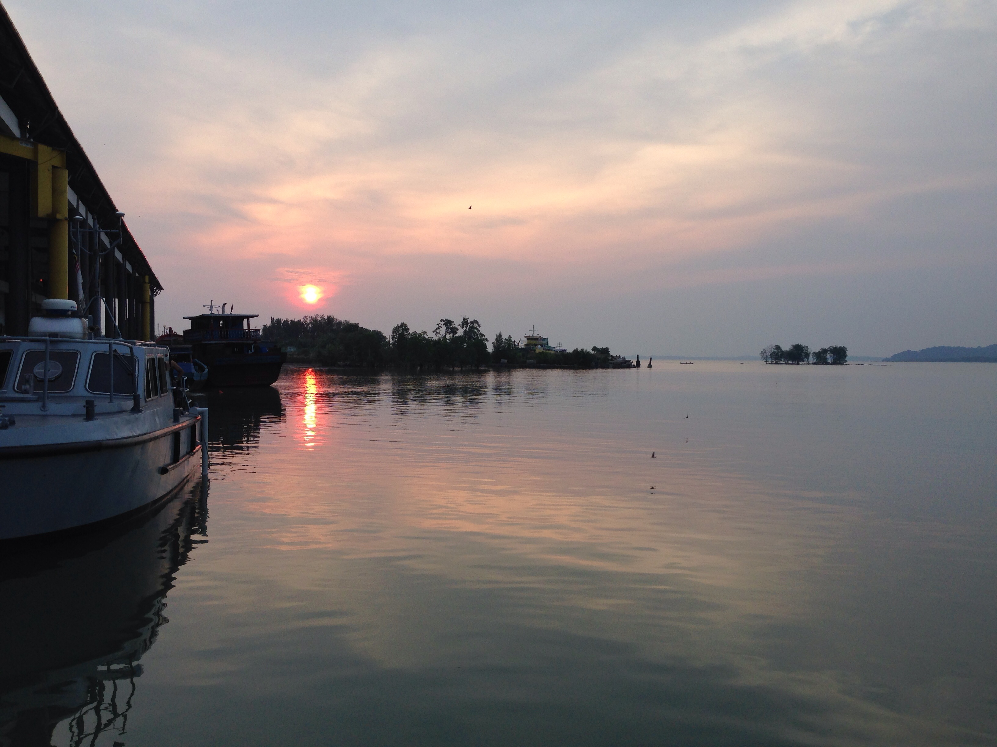 Linggi Pier, where barter trade activity will take place as well as a fishing jetty